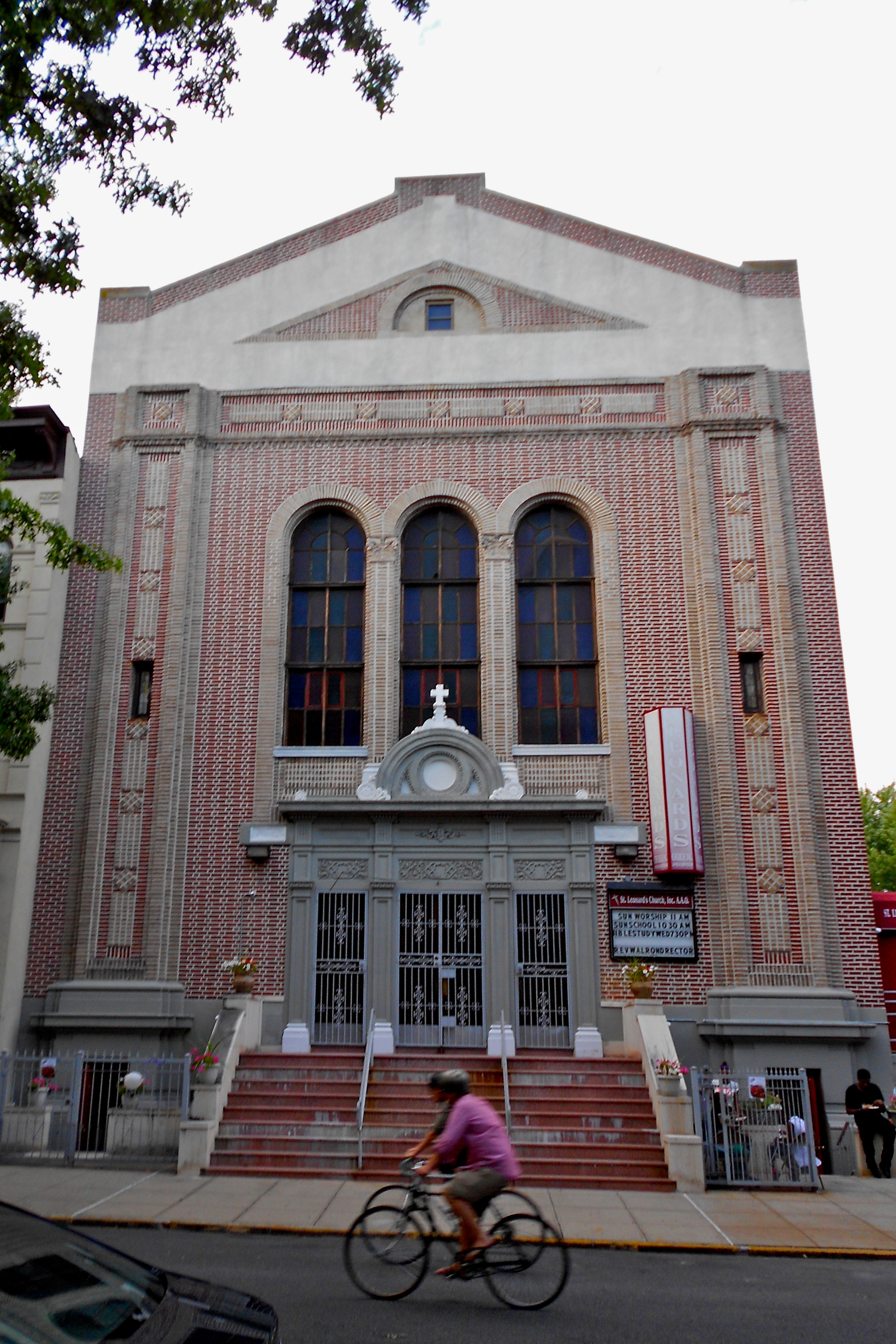 Shaari Zedek Synagogue Listed on the NRHP on December 4, 2009. At 767 Putnam Ave., Bedford-Stuyvesant, Brooklyn, New York. Now known as St. Leonards Orthodox African Church.